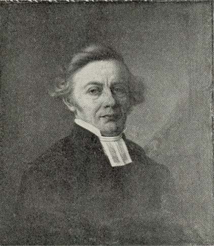 Portrait of the theologian Anders Erik Knös (1801-1862), in the possession of Västgöta nation, a student society at Uppsala University in Sweden.